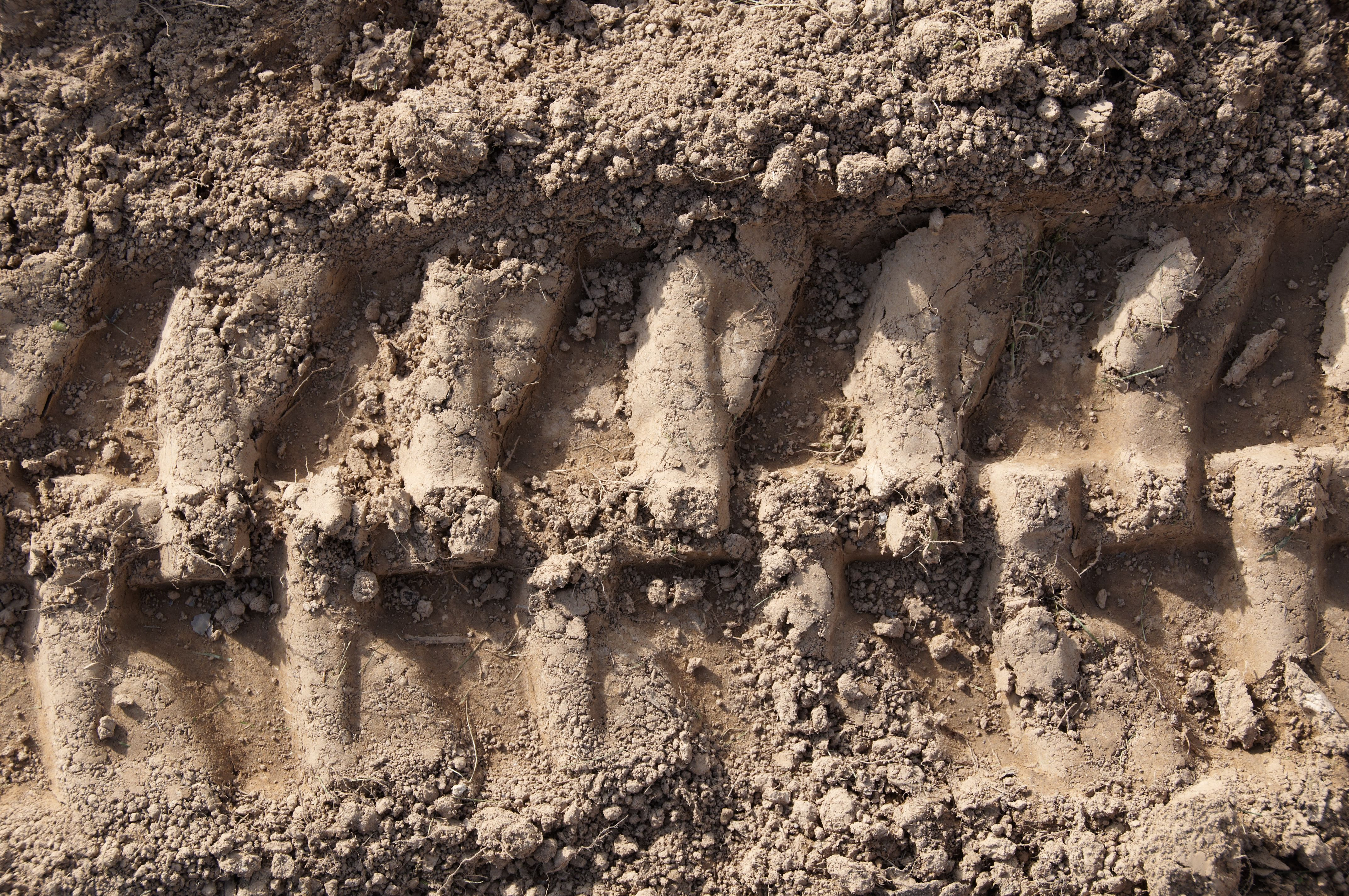 Tire traces